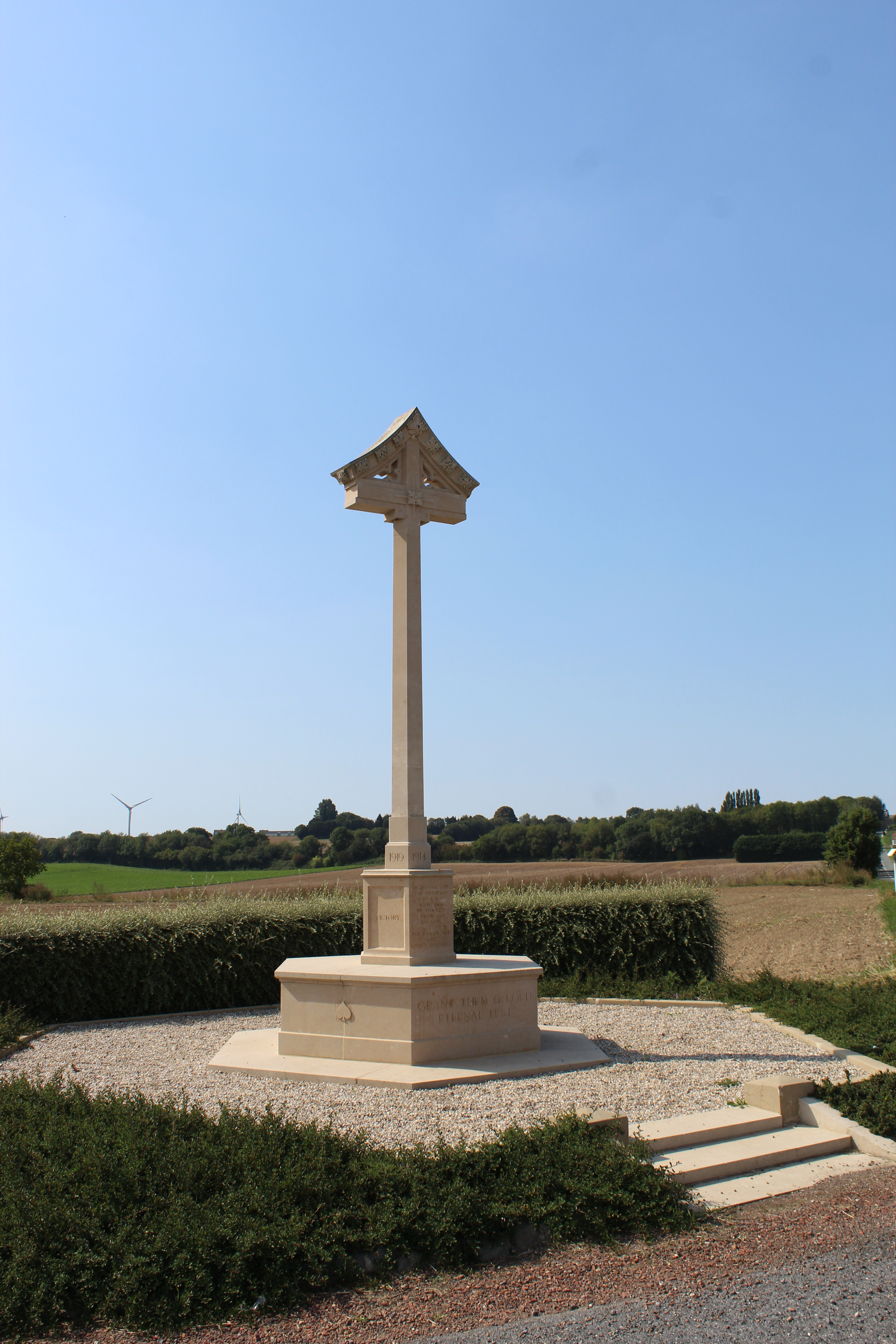 Epehy (France - Somme department) — Memorial- 12th (Eastern) Division